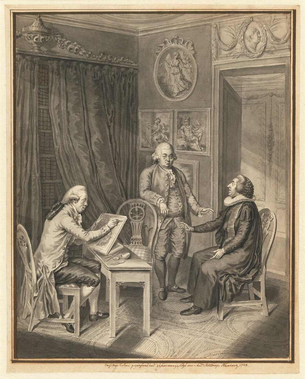 Depicted person: Carl Philipp Emanuel Bach